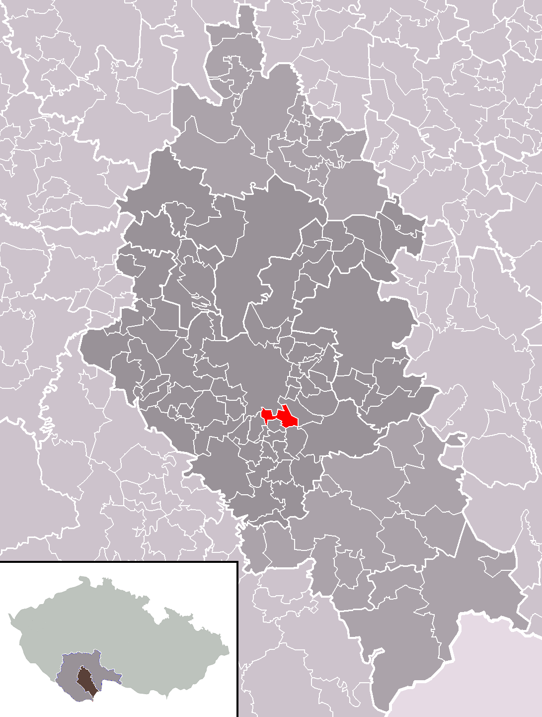 Location of Staré Hodějovice municipality within České Budějovice District and administrative area of České Budějovice as a Municipality with Extended Competence.